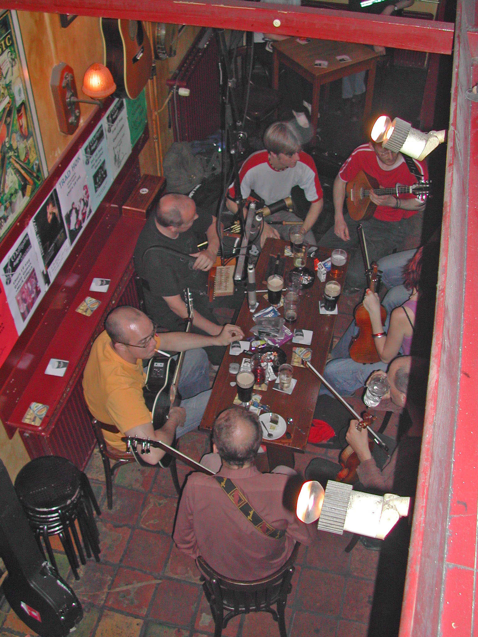 Session in Mulligans Irish Music Bar, Amsterdam, NL